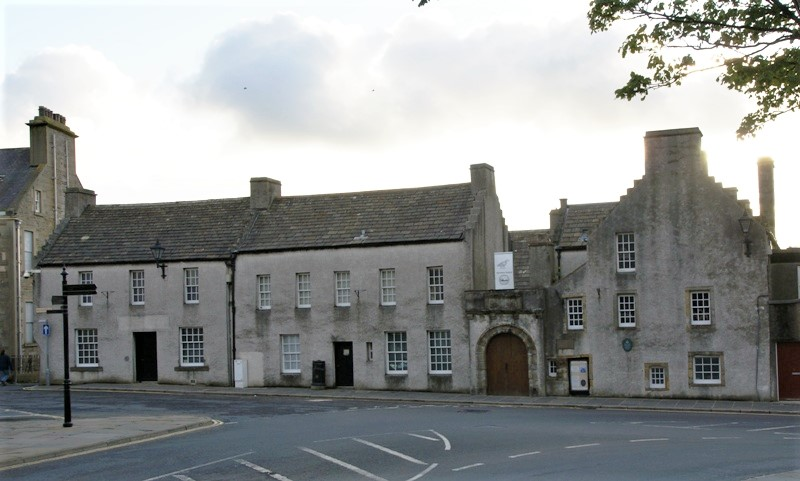 Tankerness House Museum, Kirkwall, Mainland, Orkney, Scotland.